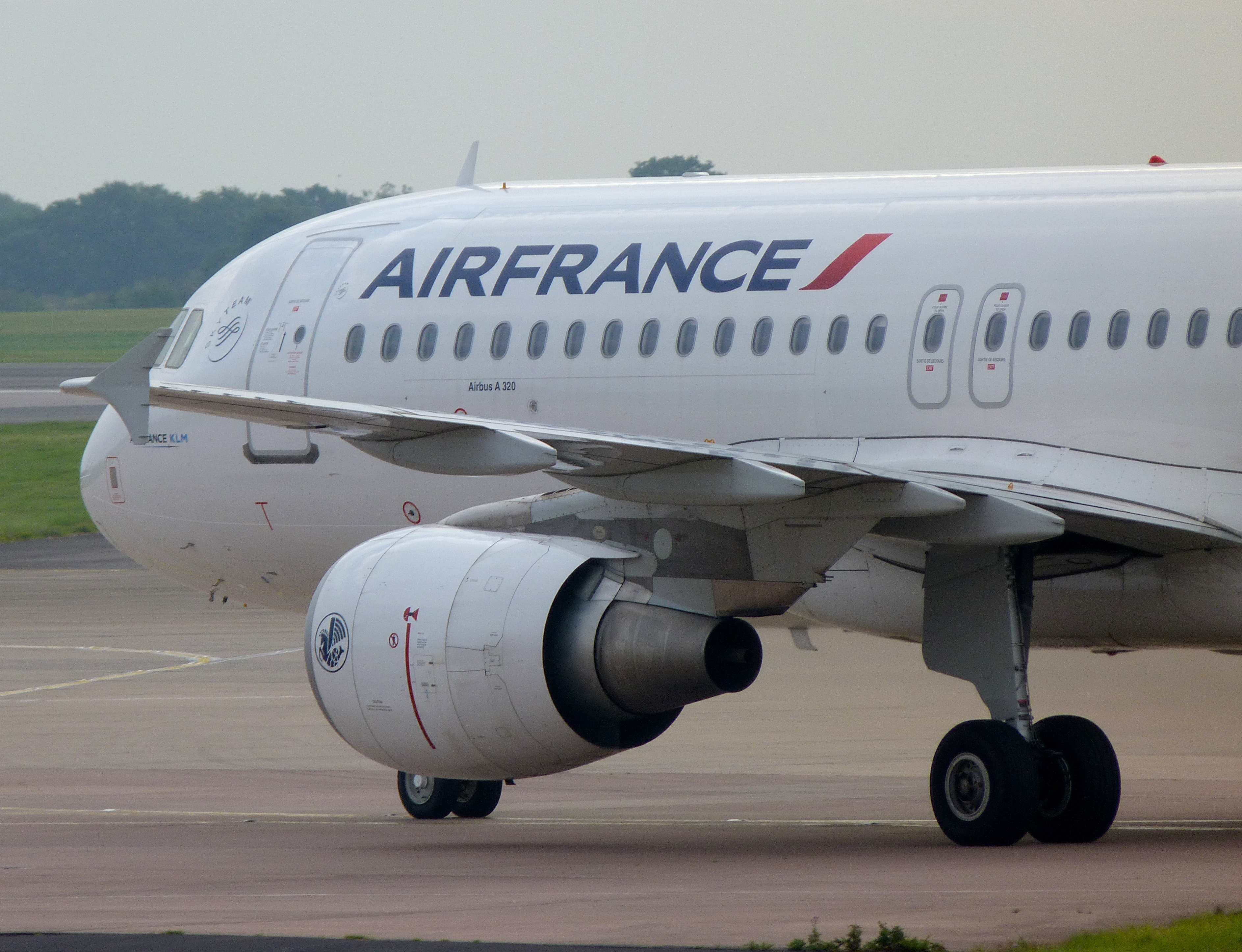 F-GKXY A.320 Air France